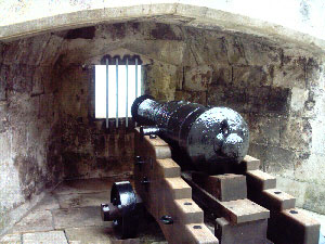 Portland Castle Cannon Battery